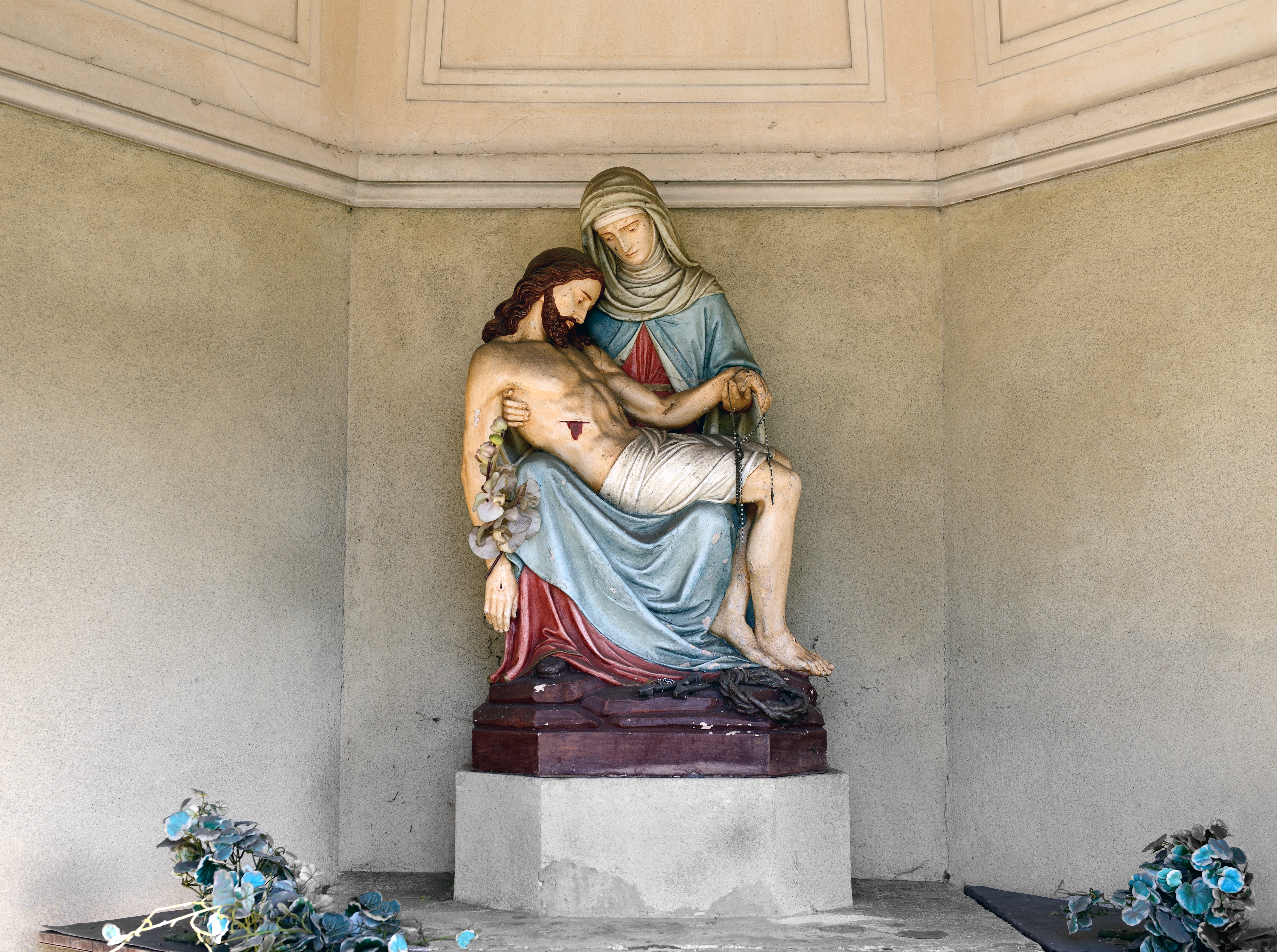 Luxembourg, Beidweiler: pietã in the chapel of 1925.